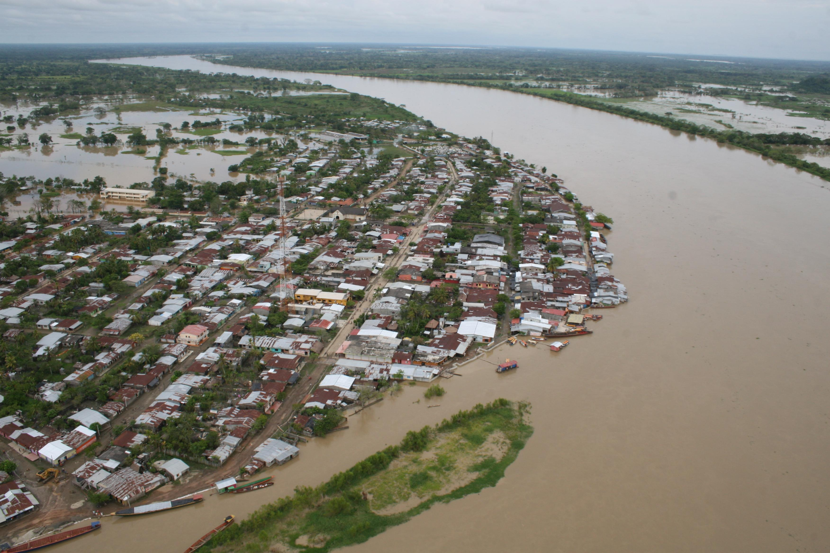 Aerial photo guarandas